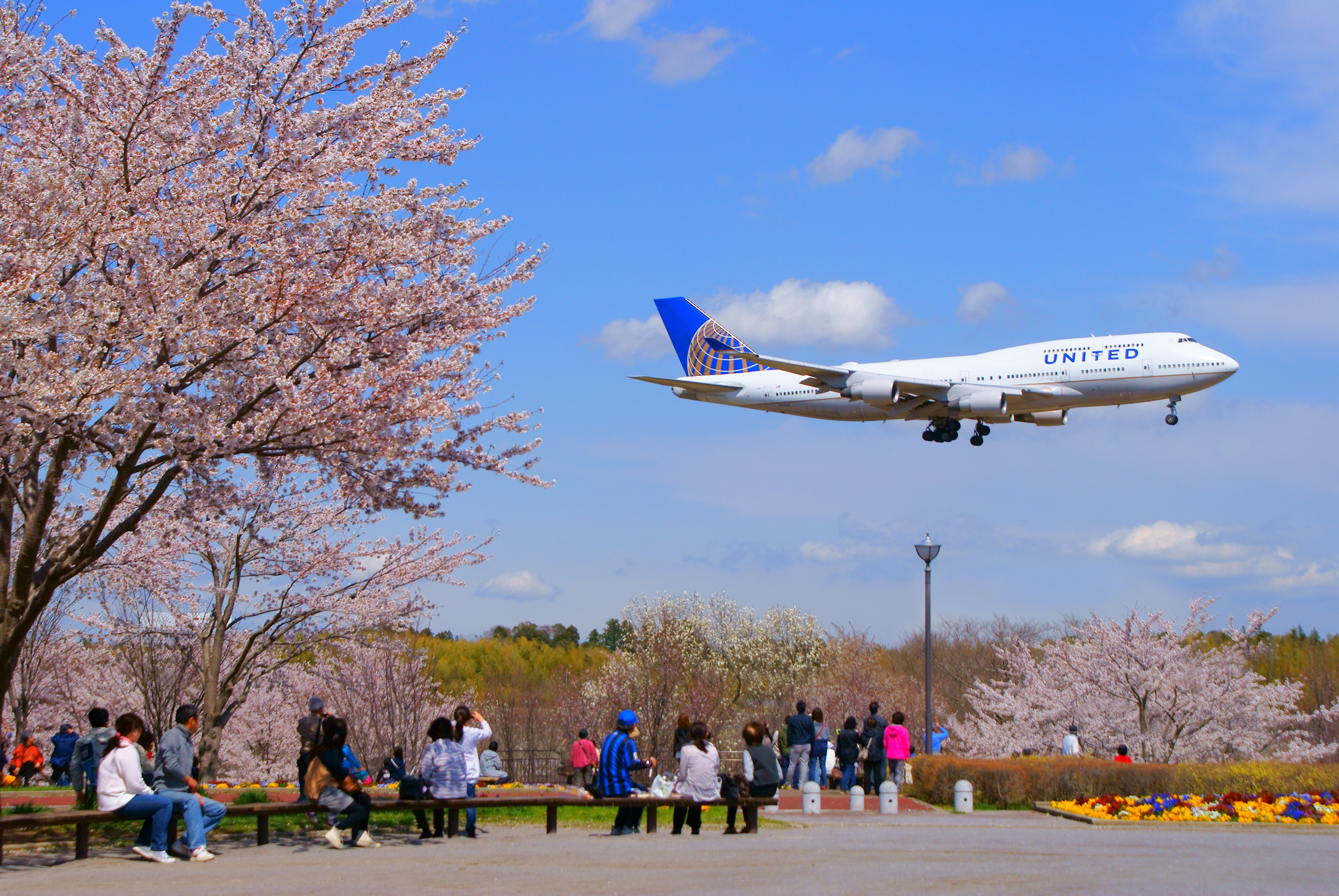 United Airlines B747-400 is landing at Tokyo Narita Airport in cherry tree full bloom